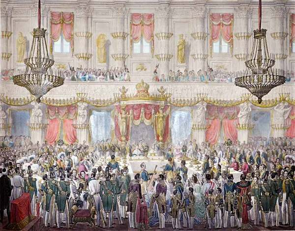 Aquarelle showing the State Banquet in the Royal Palace of Milan for the Coronation of Ferdinand I